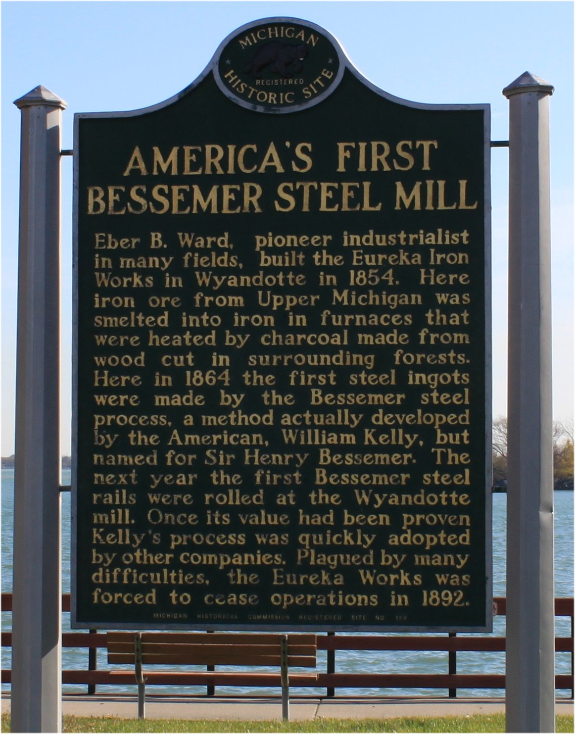 Eureka Iron Works historical marker, Northwest corner of Van Alstyne Boulevard and Elm Street, Wyandotte, Michigan.